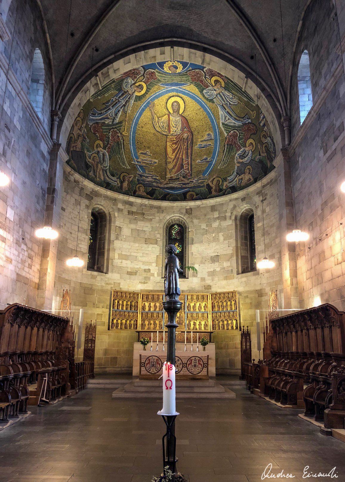 view of the altar in the Lund cathedral